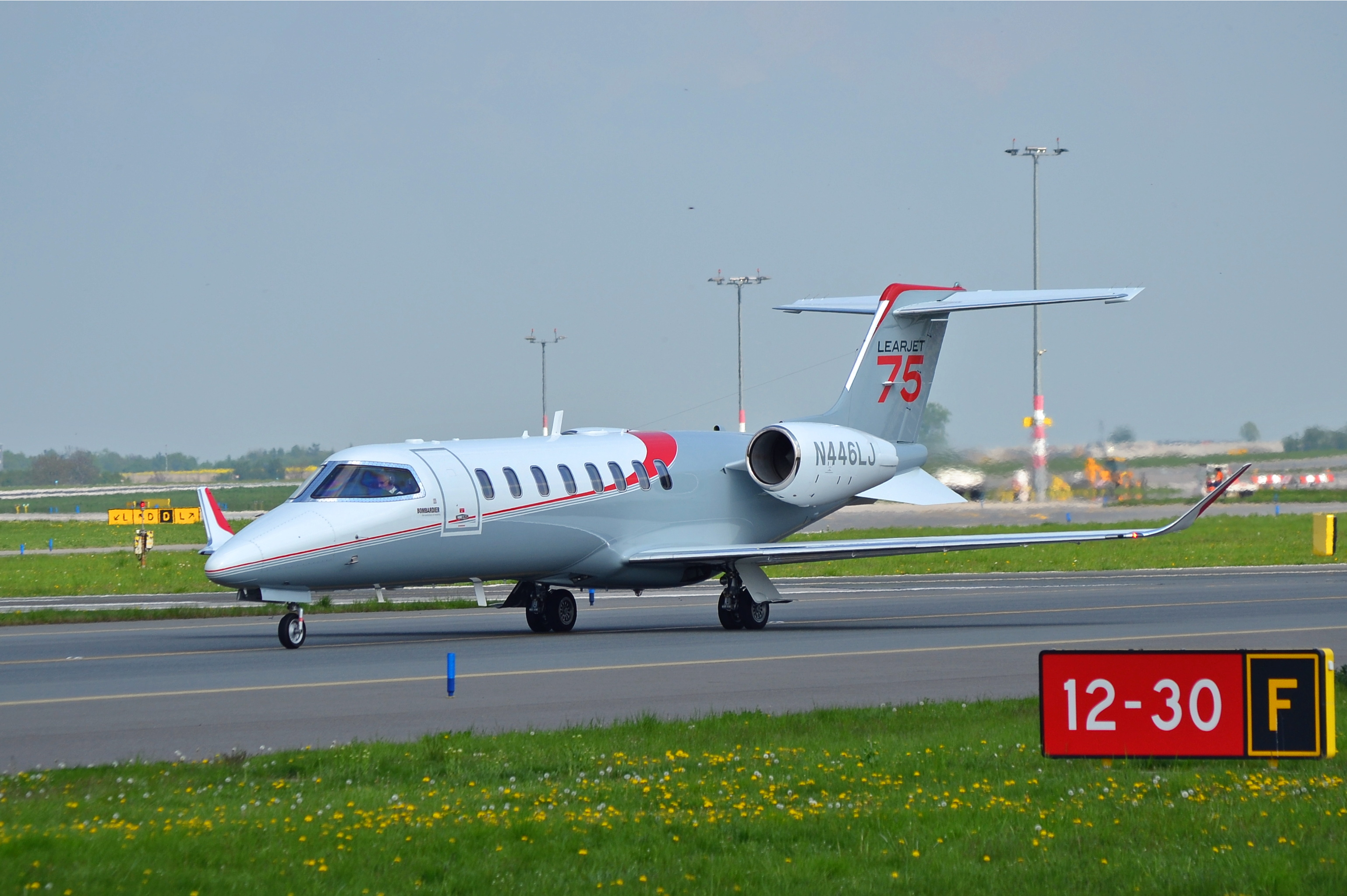 Learjet 75 (N446LJ) at Václav Havel Airport Prague, Czech Republic.